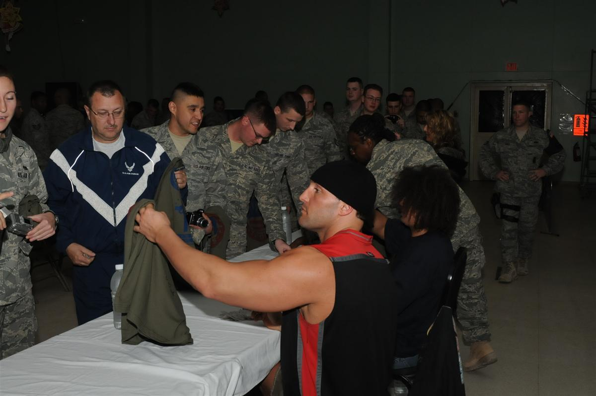 World Wrestling Entertainment superstars Carlito and Chris Masters sign autographs for service members Dec. 2 at the Morale, Welfare and Recreation center east at Joint Base Balad, Iraq. WWE superstars and divas came to Iraq to film and perform the "WWE Tribute to the Troops," which will air Dec. 19 at 9 p.m. Eastern time.